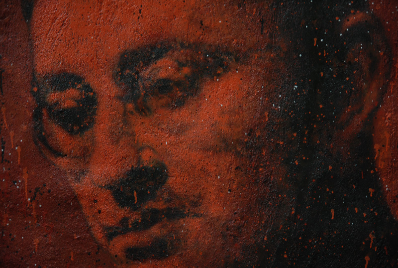 Painted portrait of Guy Debord, at the Abode of Chaos.